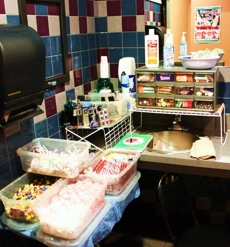 From the author: Gnarly bathroom. Prolly the sweetest bathroom ever. I mean, look at all the candy! And YES! That's totally Burberry cologne. The bathroom attendant was busy talkin to some dude.